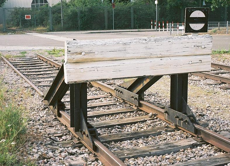 A buffer stop in Mannheim, Germany my own photo